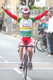 Solo win for Olivier ASMAKER on the amateur Grand Prix de Vougy (near Lyon) 2004 ahead of Jean ZEN and Jussi VEIKKANEN.